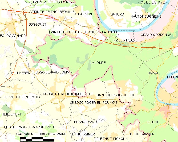 Map of French municipality La Londe